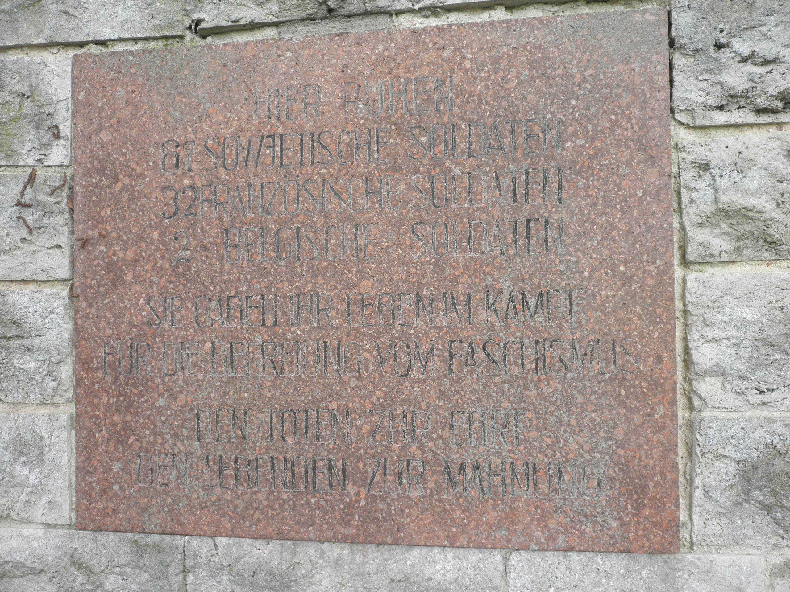 Grave of War Prisoners in Obergrunstedt (Nohra (bei Weimar))